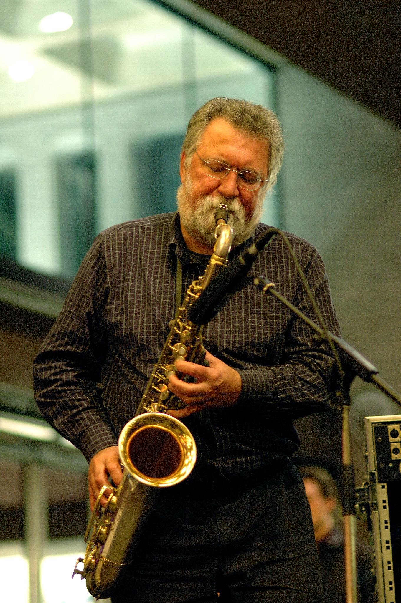 British saxophonist Evan Parker